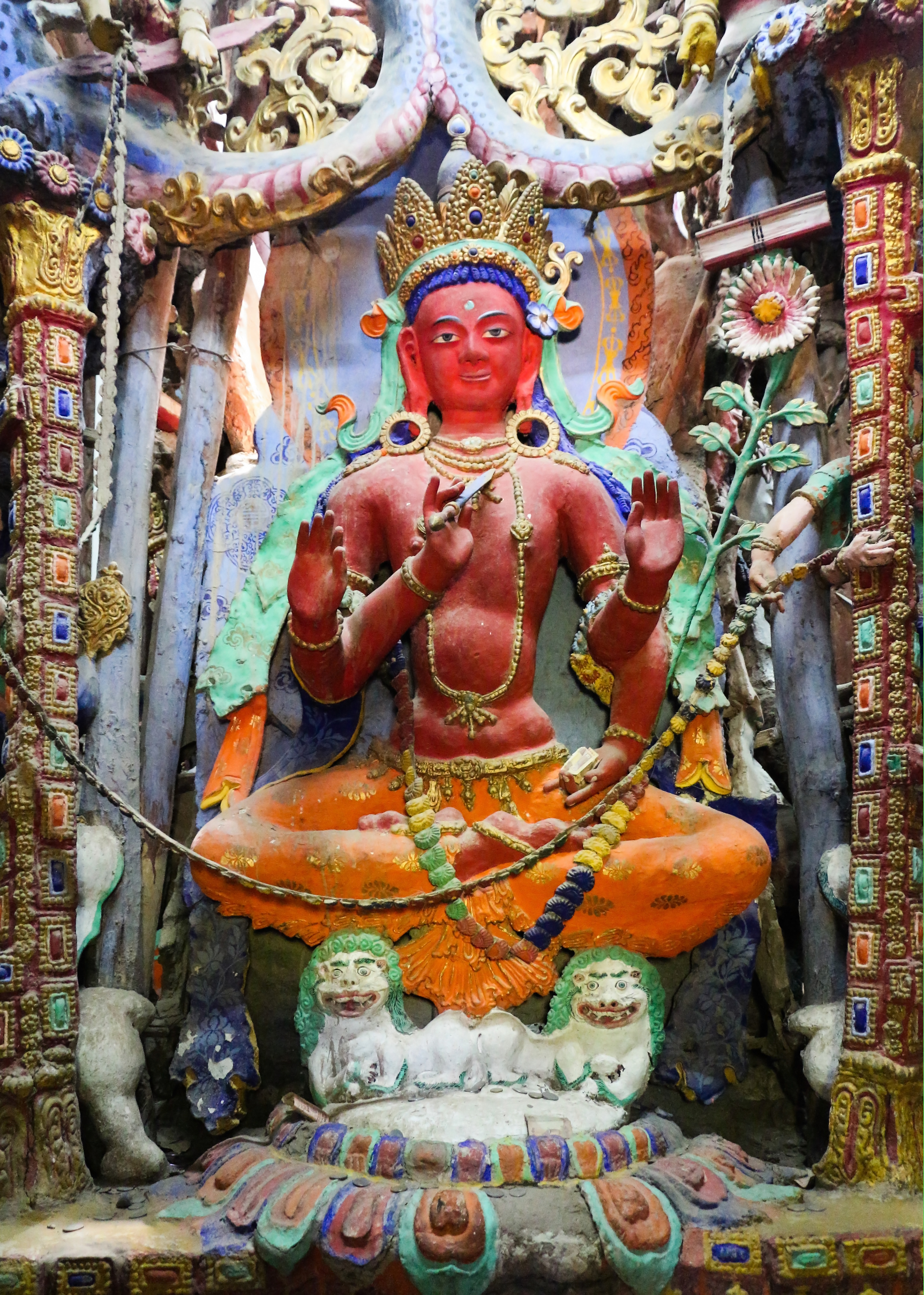 Sculpture in Alchi Monastery, Ladakh, India